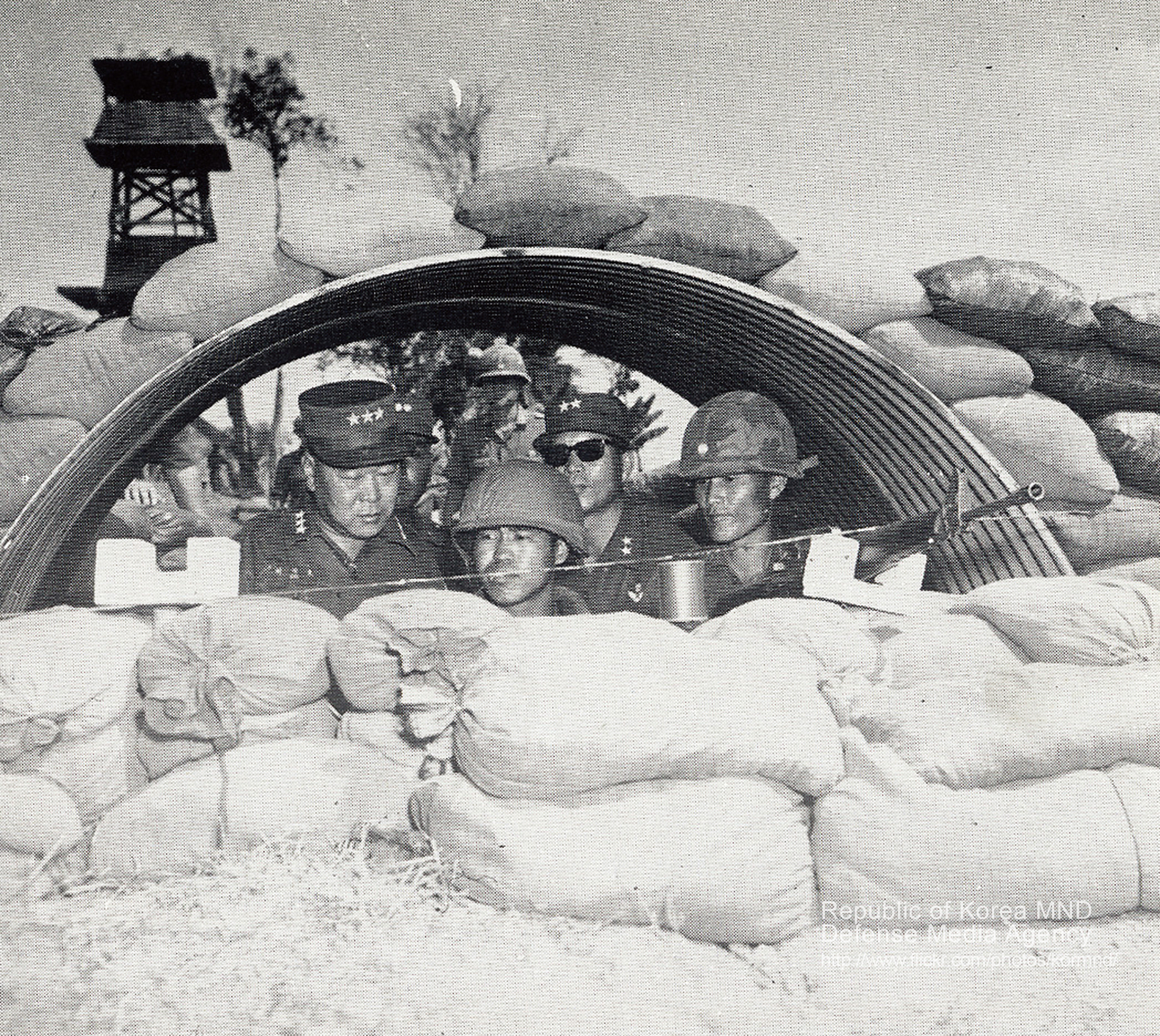 2008 Rep. of Korea, Defense Photo MagazineCommander's visit to the 6Co29R (1964~1973)